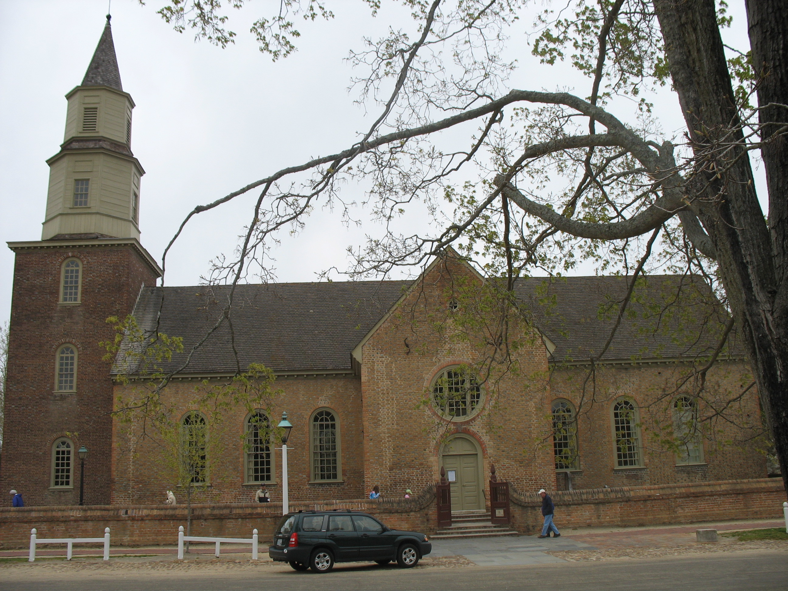 A picture of Bruton Parish Church.